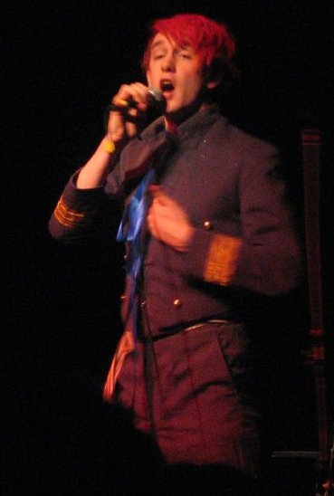 Patrick Wolf live, picture cropped from original